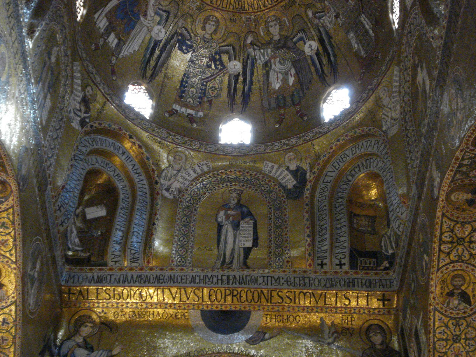 Cupola